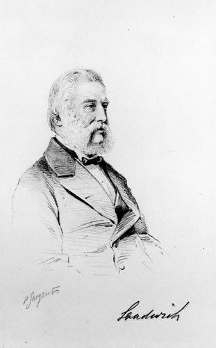 pencil, 1870s 8 in. x 5 in. (203 mm x 127 mm)